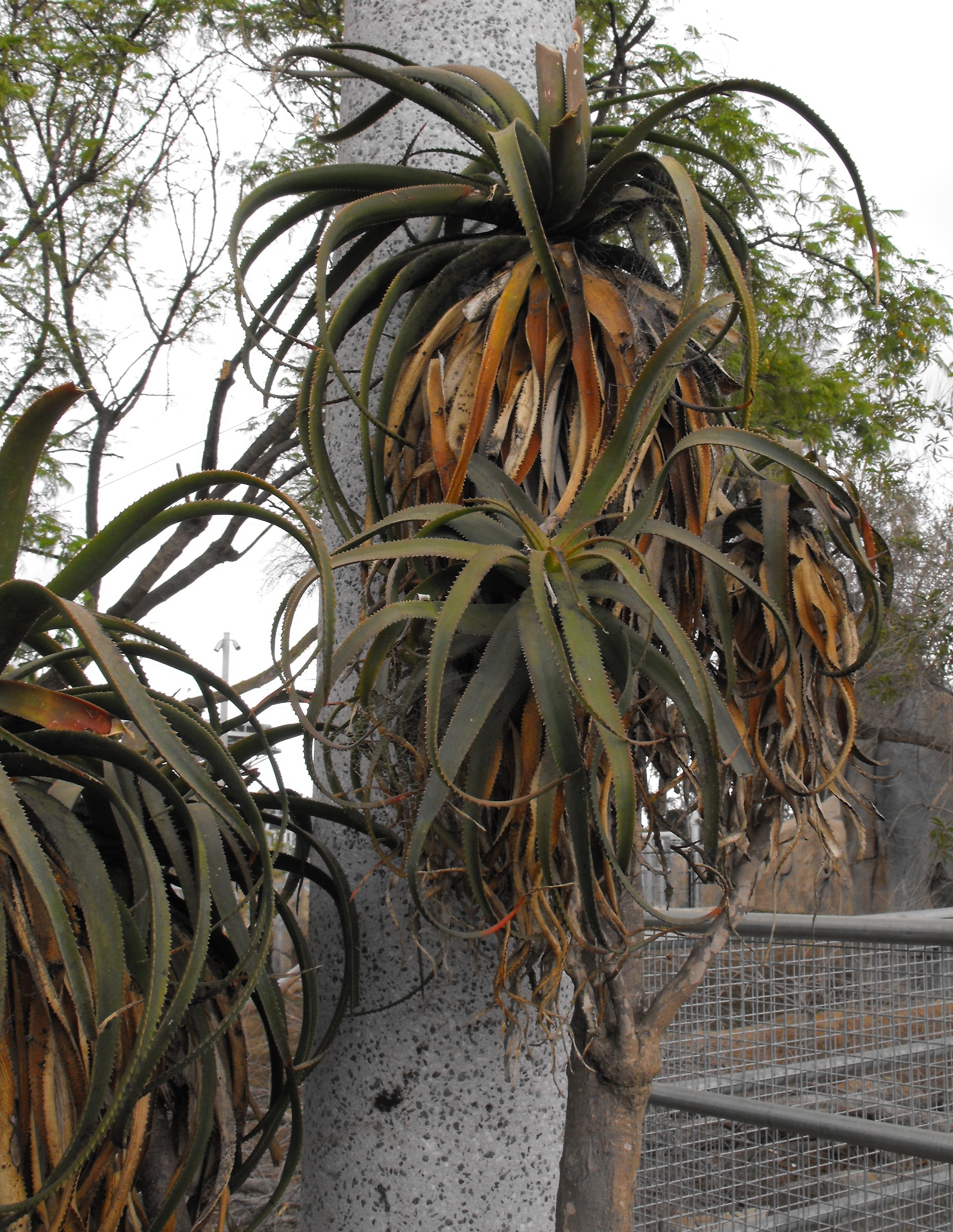 French aloe, Aloe pluridens, at the San Diego Zoo, California, USA. Identified by sign.